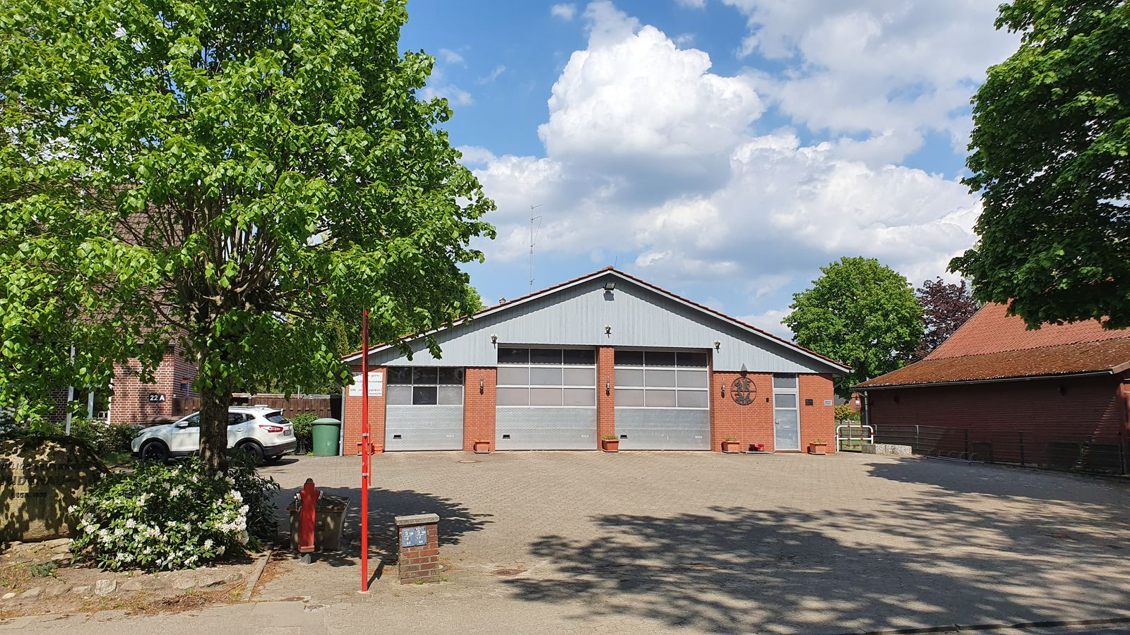 Fire Station Heidenau